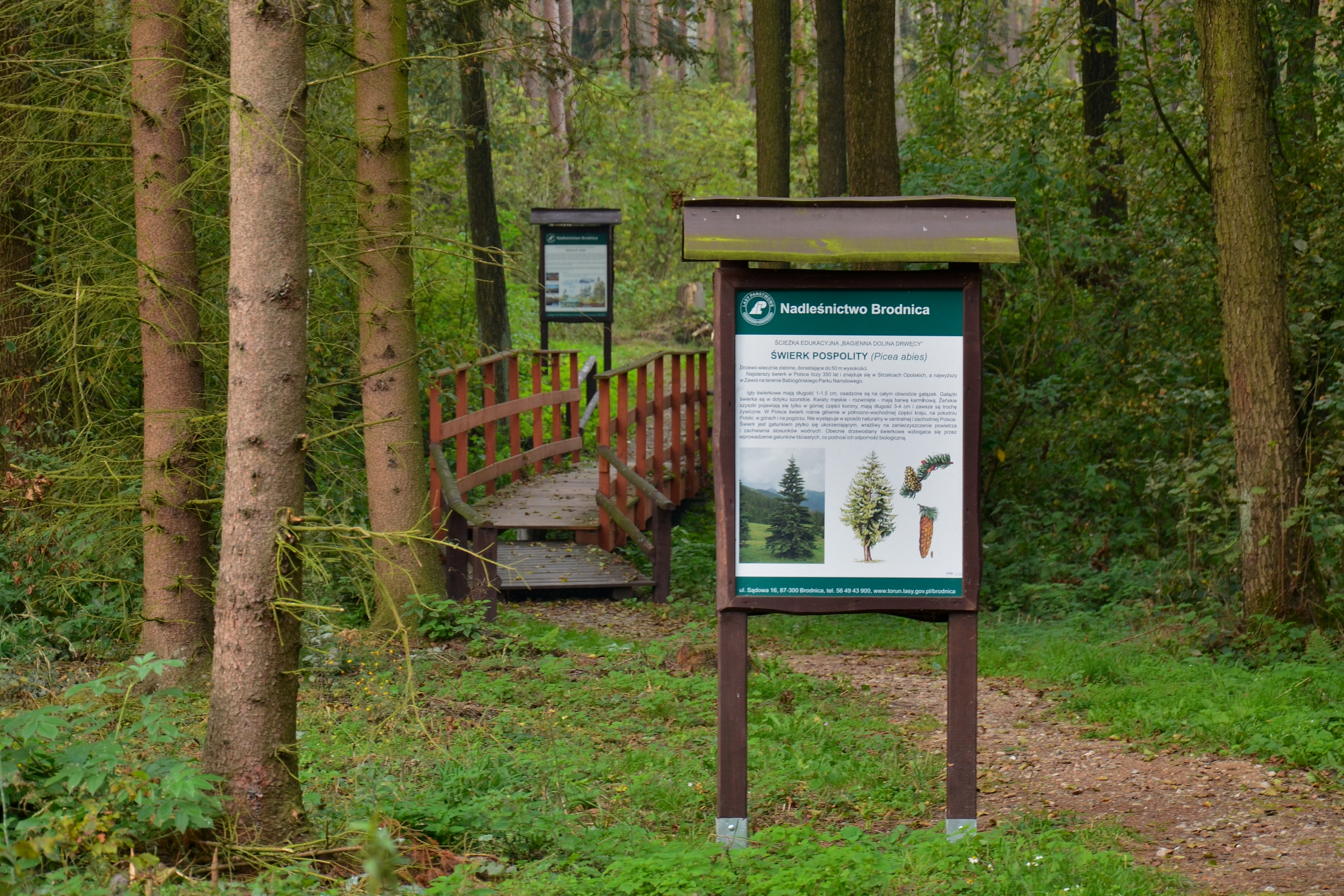 Educational trail by Marshy valley of the Drweca river